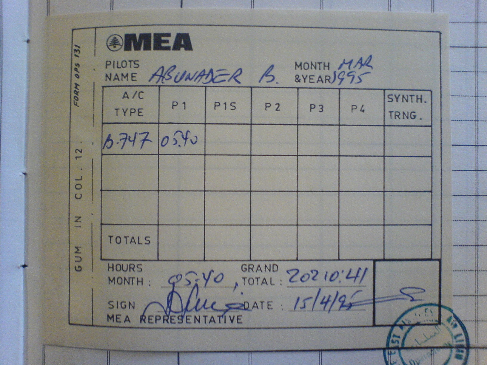 This is a photo taken from Boutros Salim AbouNader's final flight log book stamp. It depicts his total amount of air hours whilst flying for Middle East Airlines.